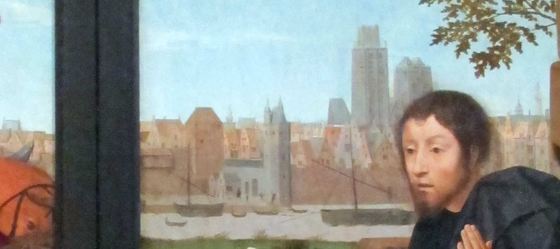 part of the painting Maestro del trittico morrison, adorazione dei magi, 1504 ca, showing Antwerp. This is the oldest known view of Antwerp. Painting at the Philadelphia Museum of Art original on wikipedia: [